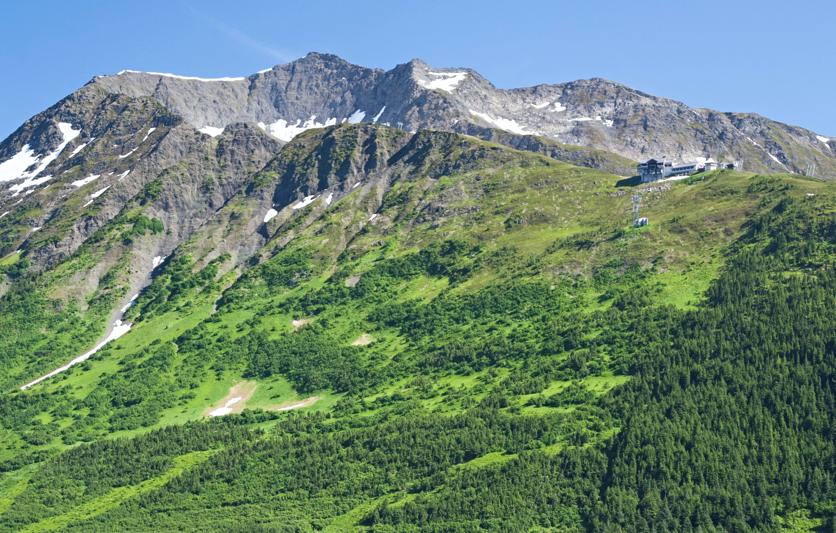 Mount Alyeska, Chugach National Forest, Alaska.